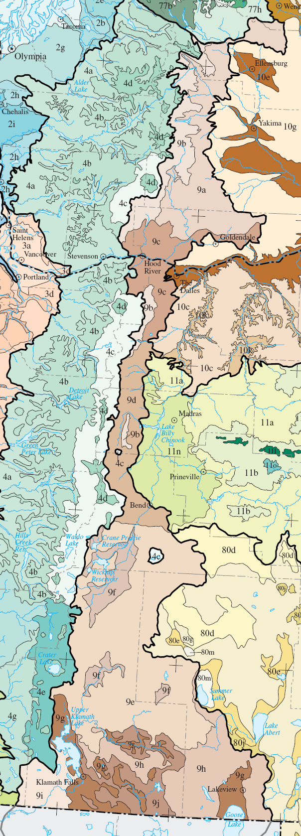 Level IV ecoregions in the Eastern Cascades Slopes and Foothills ecoregion, as defined by the EPA. This map is a draft and may now be slightly outdated. For more information about these ecoregions, see [1]